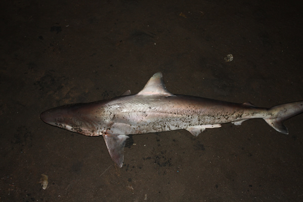 Pacific smalltail shark (Carcharhinus cerdale) at Sorona, Mexico